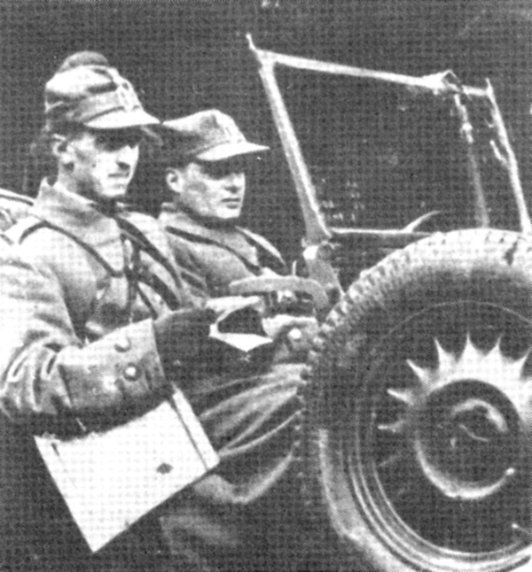 Colonel Kalenkiewicz during the Operation "Ostra Brama"